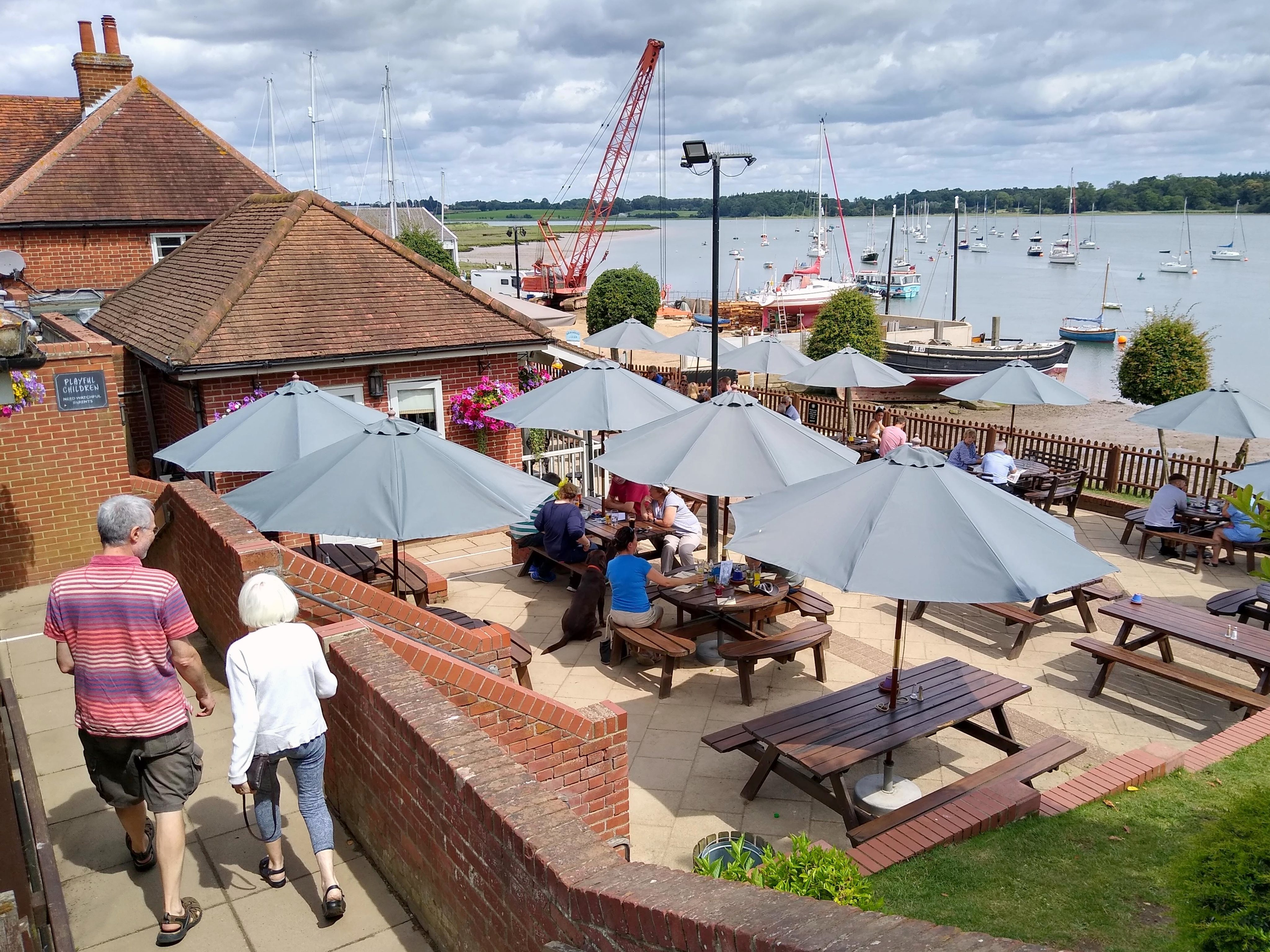 The Maybush Inn and the Deben in Waldringfield in July 2019.